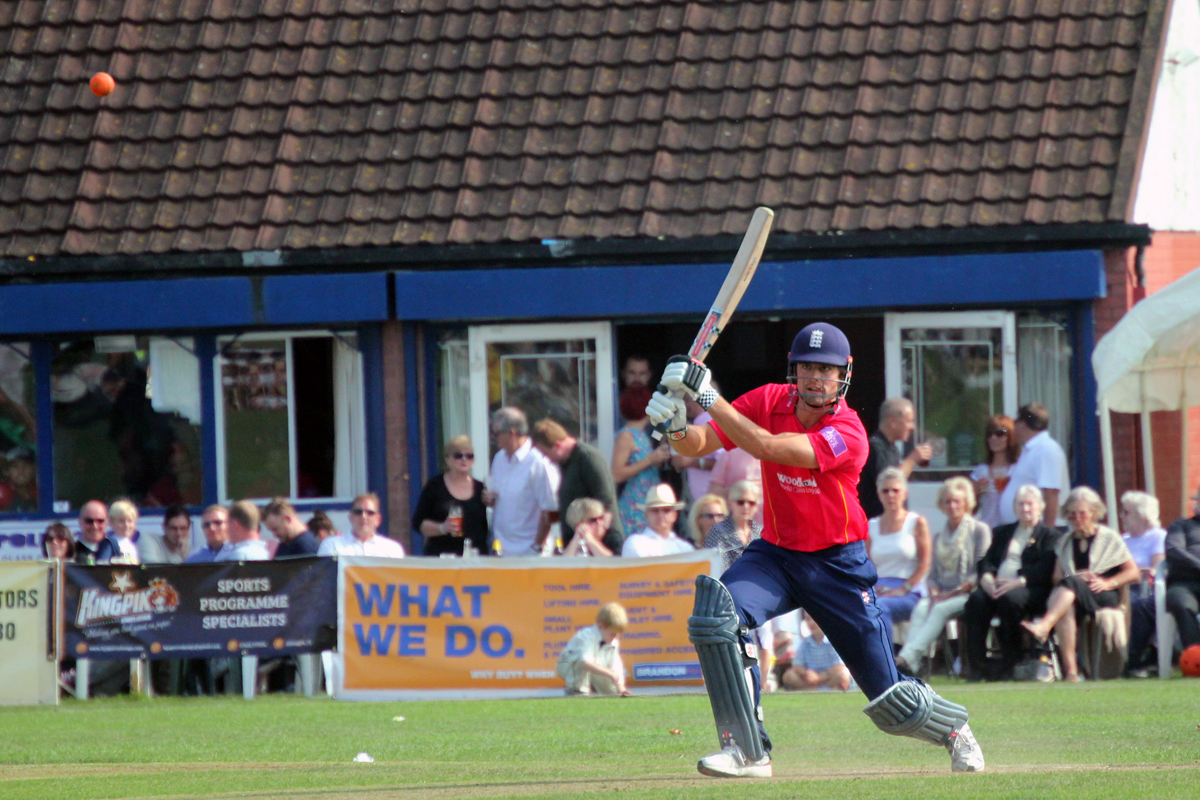 Alastair Cook Batting for Essex CCC vs Upminster CC at Upminster Park